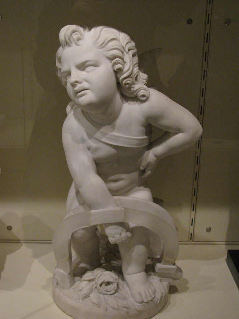 Poor Cupidmodeled ca. 1872, carved 1876 Edmonia Lewis Died: Rome, Italy marble 27 x 13 3/4 x 12 1/4 in. (68.6 x 34.9 x 31.1 cm.) Smithsonian American Art Museum Gift of Alfred T. Morris, Sr. 1984.156 Smithsonian American Art Museum Wikipedia Loves Art at the Smithsonian American Art Museum This photo of item # 1984.156 at the Smithsonian American Art Museum was contributed under the team name "Team_Gene" as part of the Wikipedia Loves Art project in February 2009. Smithsonian American Art Museum The original photograph on Flickr was taken by pohick2—please add a comment to the original Flickr page whenever a use has been made on Wikipedia or another project. Project galleries on Flickr: this institution, this team